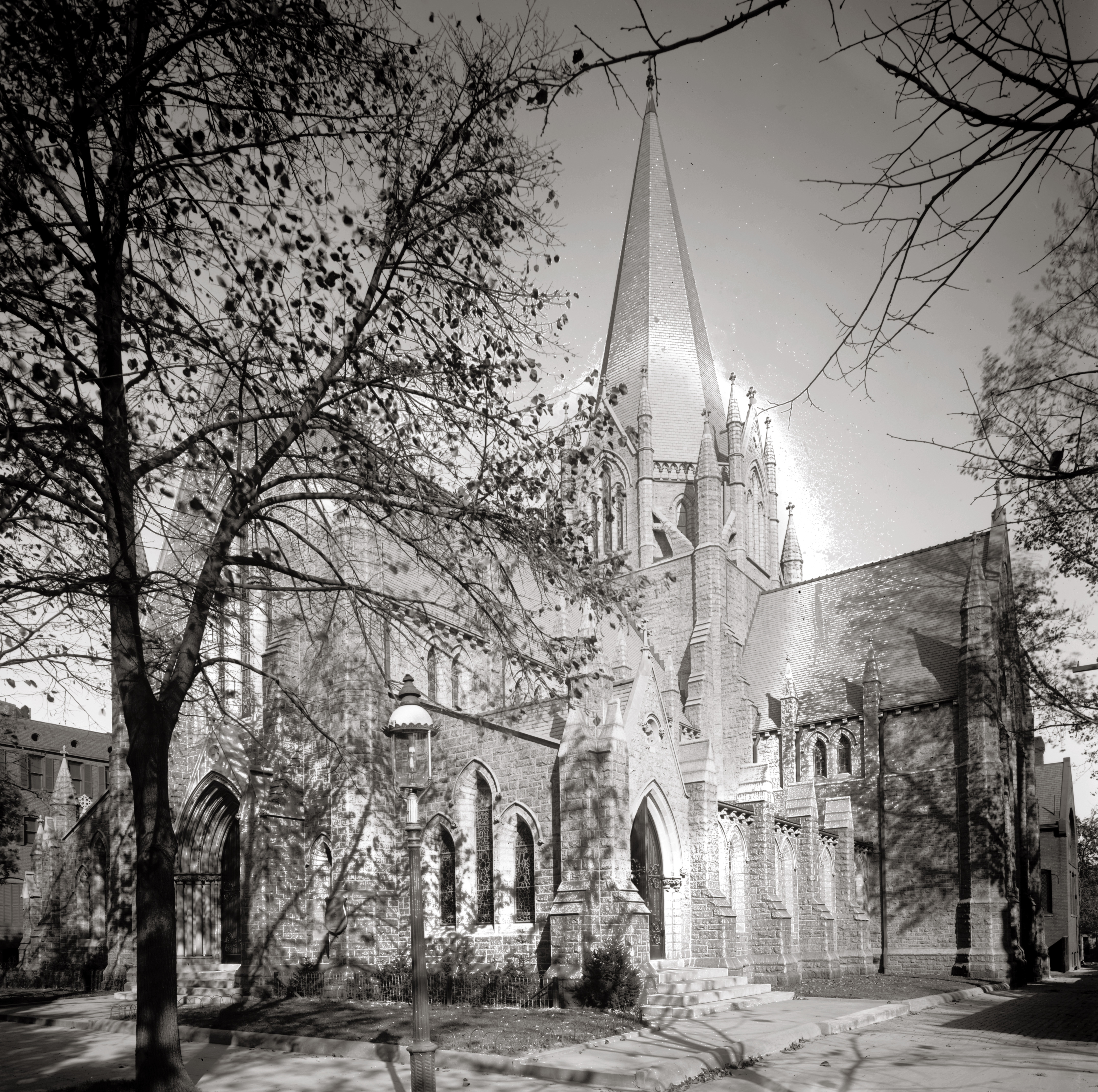 The original sanctuary of St. Thomas' Parish located at 1772 Church Street, NW in the Dupont Circle neighborhood of Washington, D.C. The sanctuary was destroyed in 1970 by arson fire.